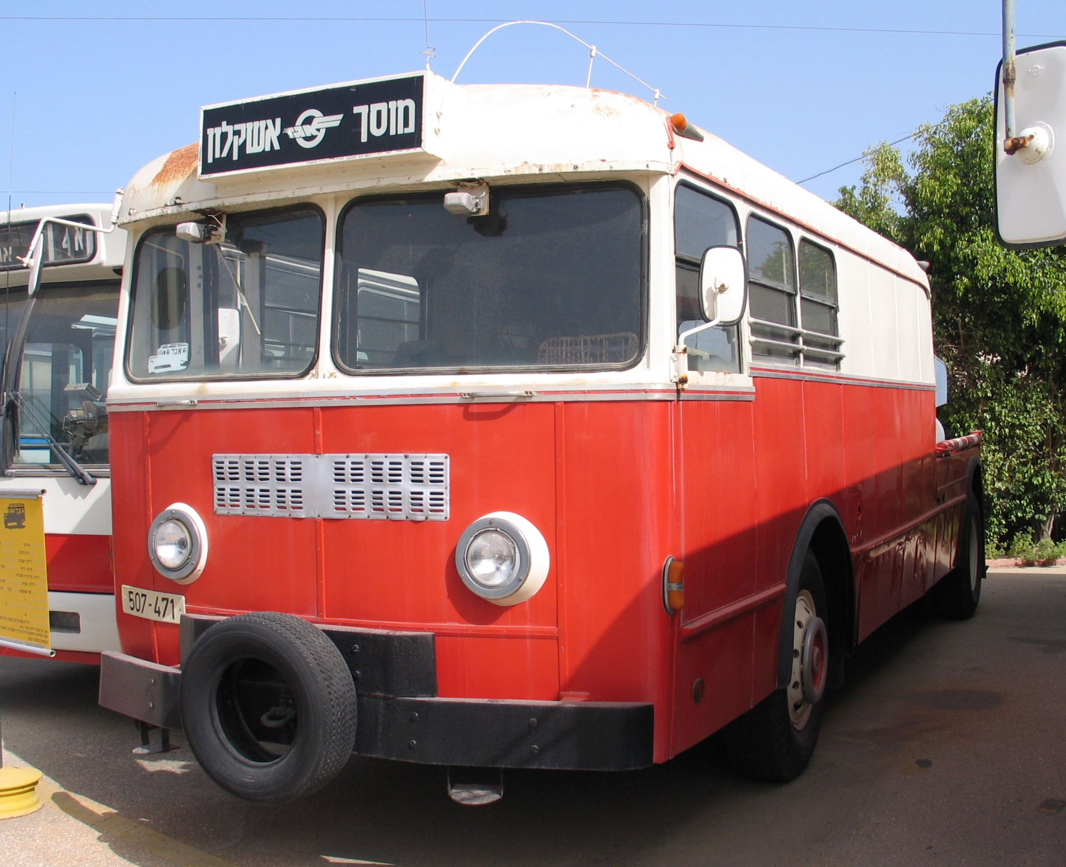 Leyland tow truck in the Egged Museum, Holon, Israel.